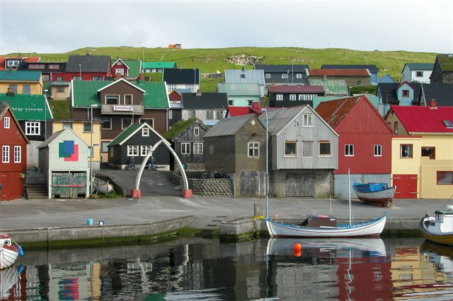 The village Nolsoy